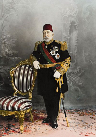 35th Sultan of the Ottoman Empire and 114th caliph of Islam, Mehmed V.